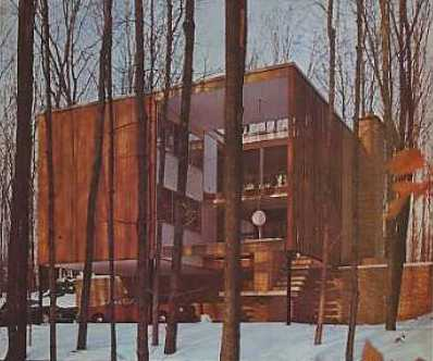 Tividar Balogh House, Plymouth MI